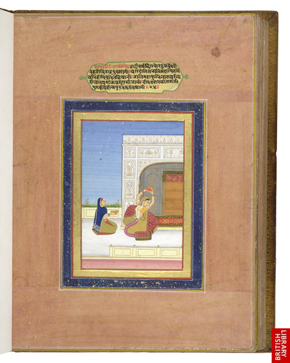 Raag Poorvi, Ragamala, 17th century. The album contains 36 paintings.